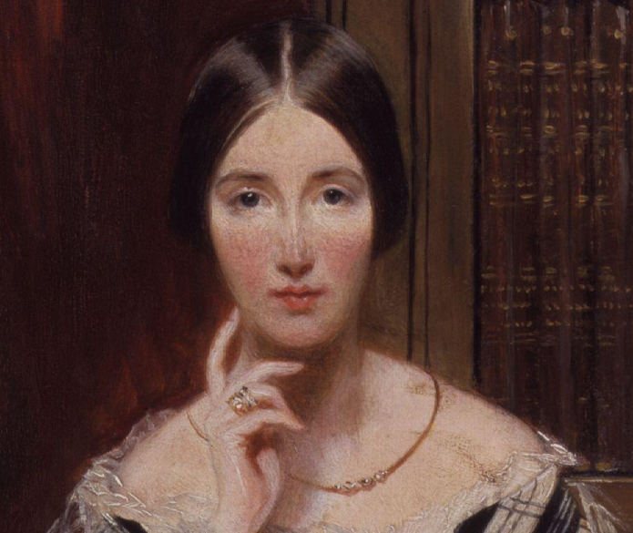 Cropped version of Angela_Georgina_Burdett-Coutts,_Baroness_Burdett-Coutts_from_NPG.jpg